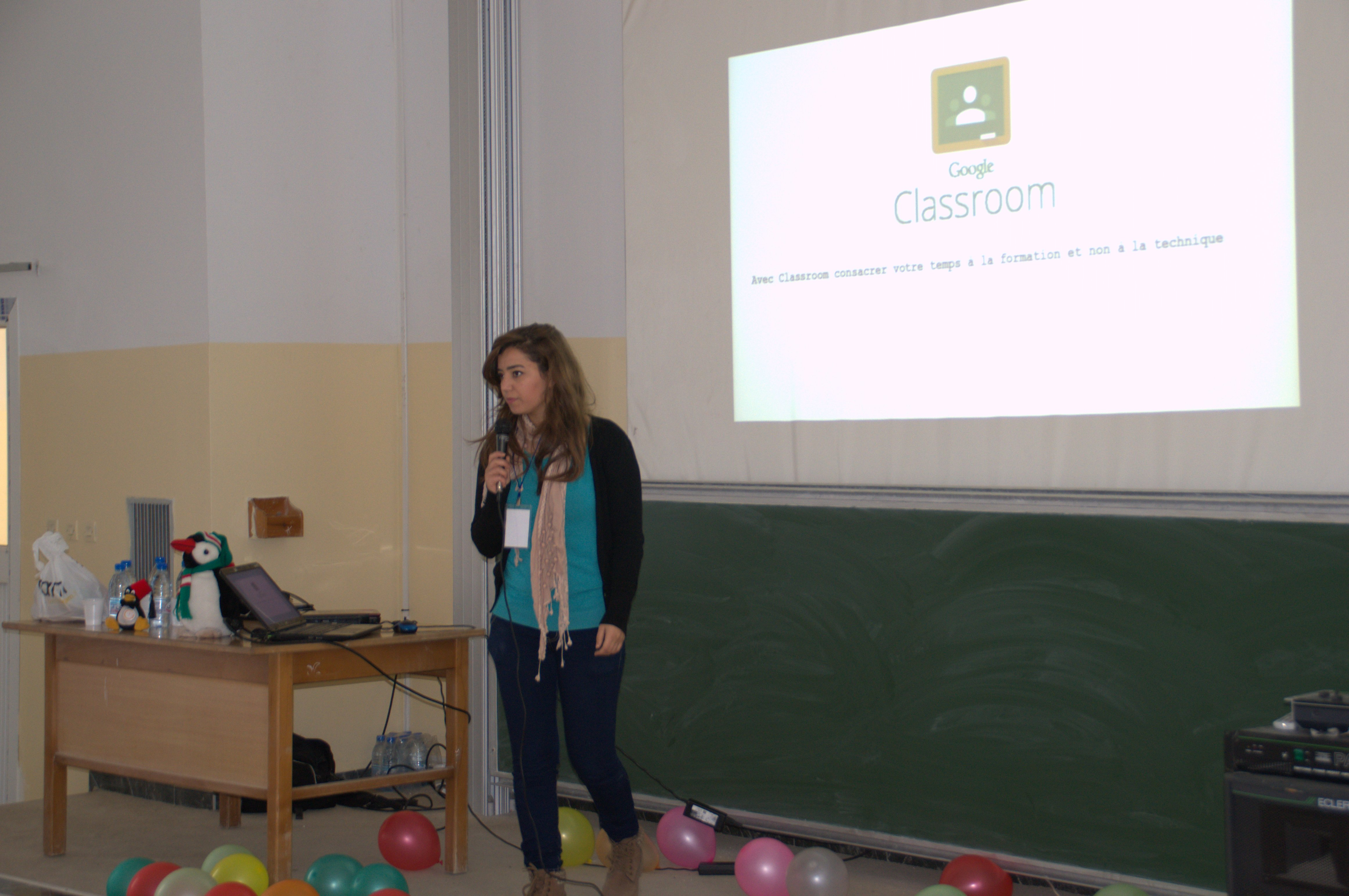 Education Freedom Day in Tunisia, held in Monastir